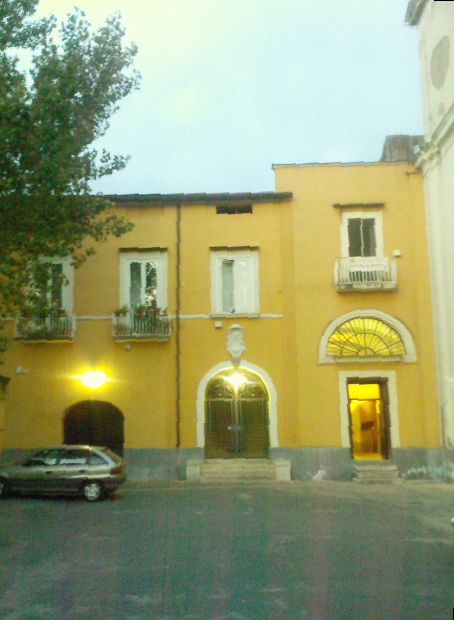 Bishop's Palace, Acerra, Italy